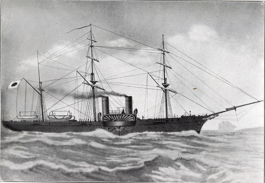 Japanese warship( Corvette) "回天"（Kaiten）